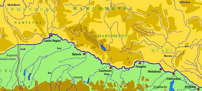 Roman Legionary Fortresses on the Upper Danube (only Legion headquaters added), and with bigger municipii in the first century AD, crop from a larger map called Germania_-_i_popoli_JPG.jpg (now Image:Germania Magna jpg.jpg) from the user Cristiano64, who published it on GNU Free Documentation License, Version 1.2